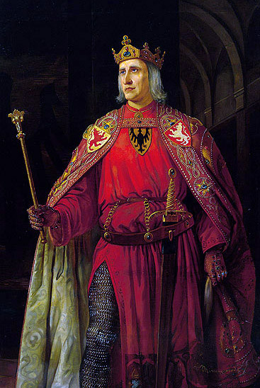 Rudolf I of Habsburg.